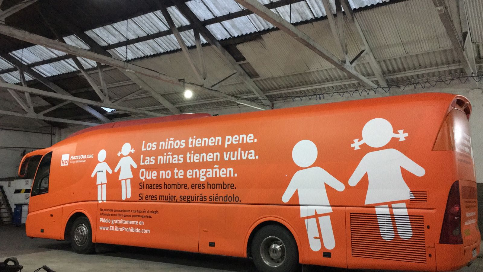 Transphobic bus chartered by HazteOír (Make Yourself Heard) on February 27. The bus reads "Boys have penises. Girls have vulvas. Don't be fooled. If you were born a man, you're a man. If you're a woman, you'll keep being one. Don't let them manipulate your kids at school. Inform yourself with the book they don't want you to read. Order it for free at "